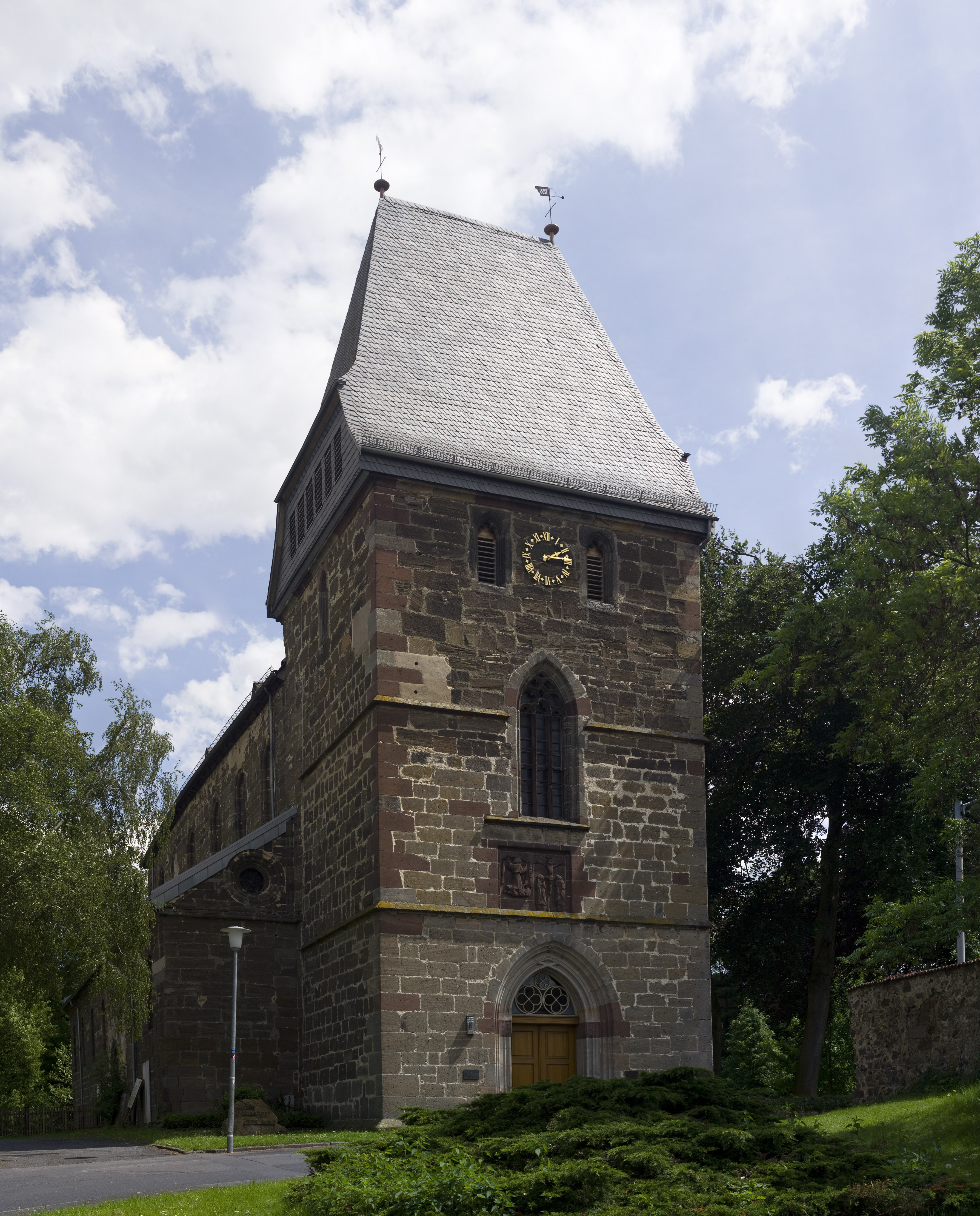 parish church in Spieskappel, Frielendorf